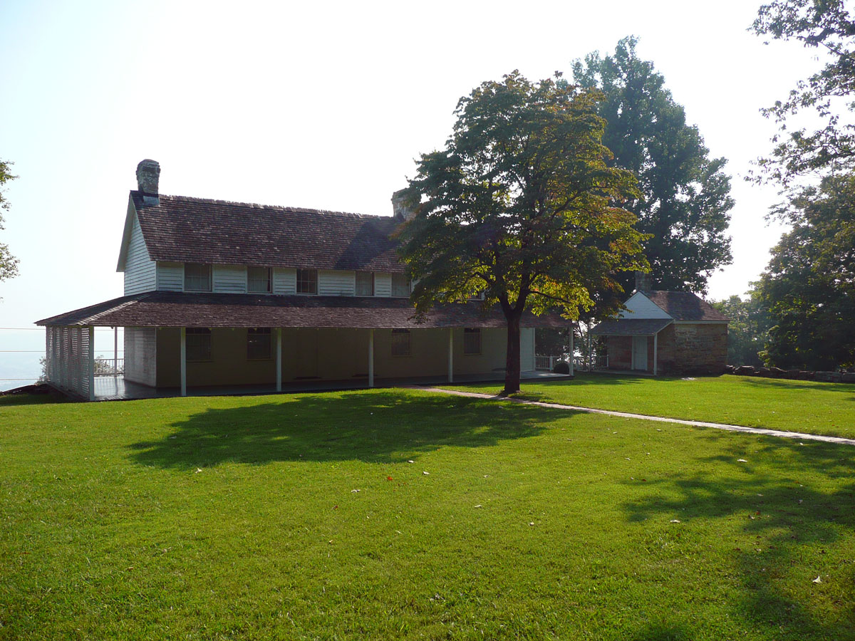 Photograph of the Cravens house on Lookout Mountain in Chattanooga.